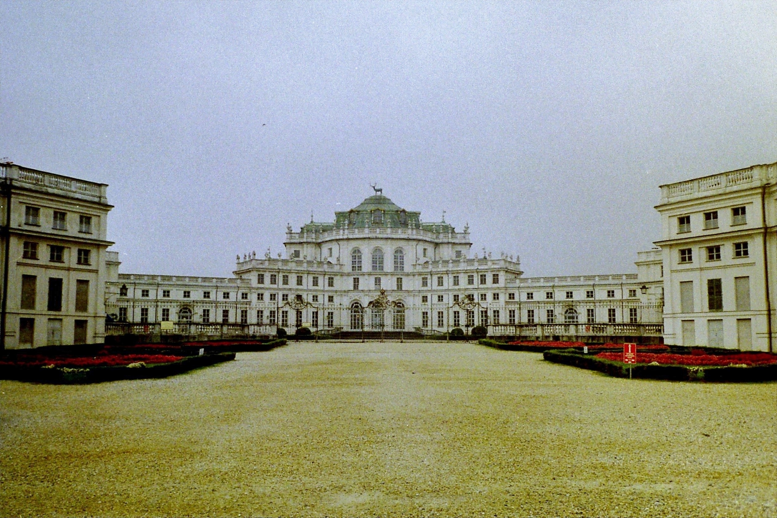 Hunting Palace of Stupinigi, Nichelino, Northern Italy